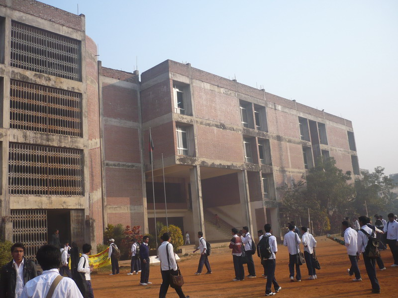 Branch - 1